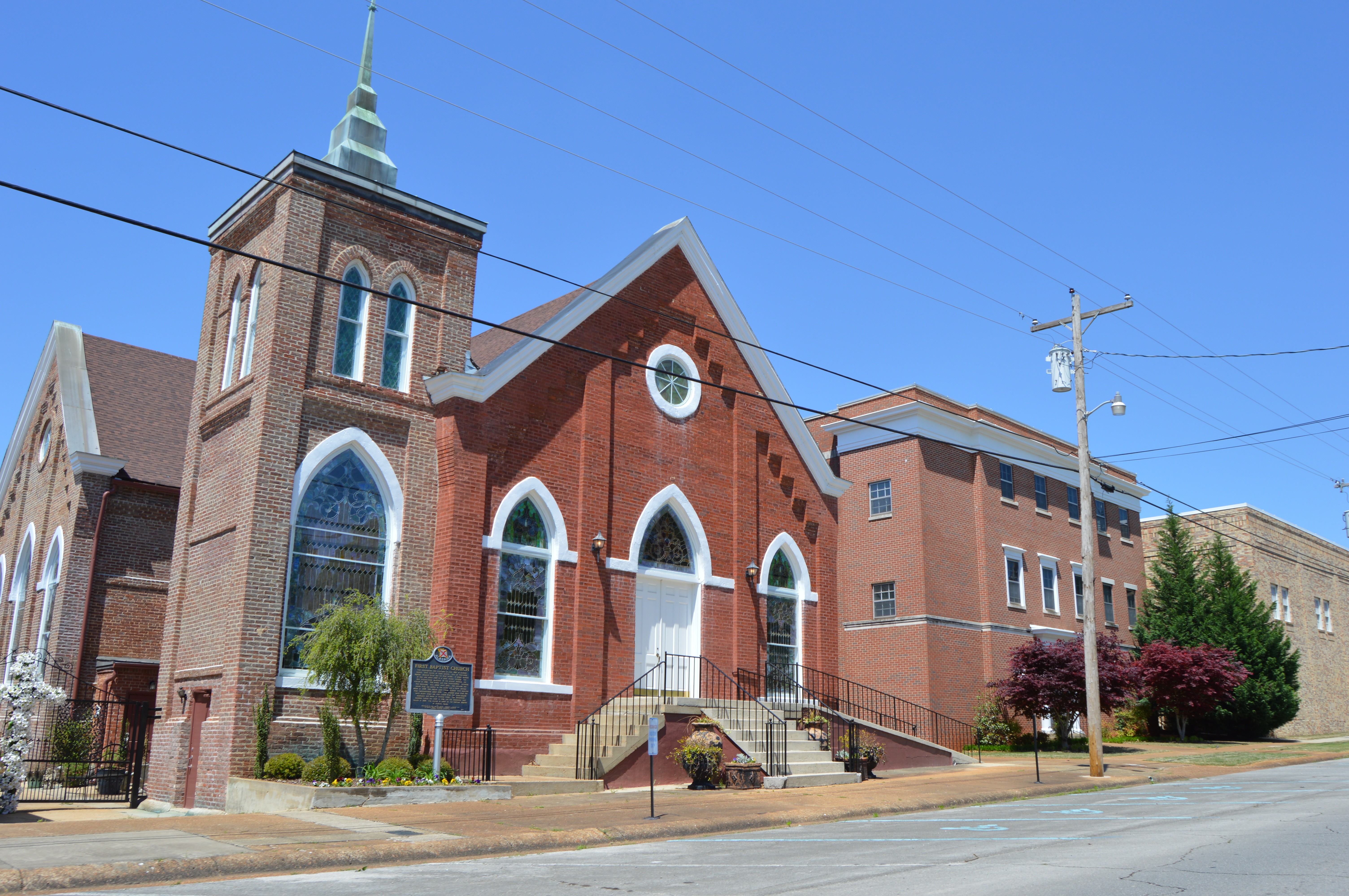 Front of the former First Baptist Church of Tuscumbia, located on the western side of Dickson Street between Third and Fourth Streets in Tuscumbia, Alabama, United States. It is part of the Tuscumbia Historic District, a historic district that is listed on the National Register of Historic Places.